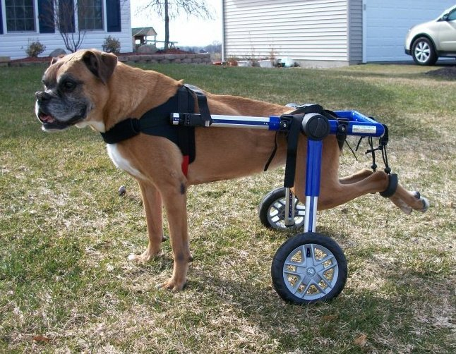 The Walkin' Wheels (R) Dog Wheelchair adjusts easily to any size dog between 20 & 150 pounds. The smaller versions, the Walkin' Wheels Mini is used for Smaller dogs.